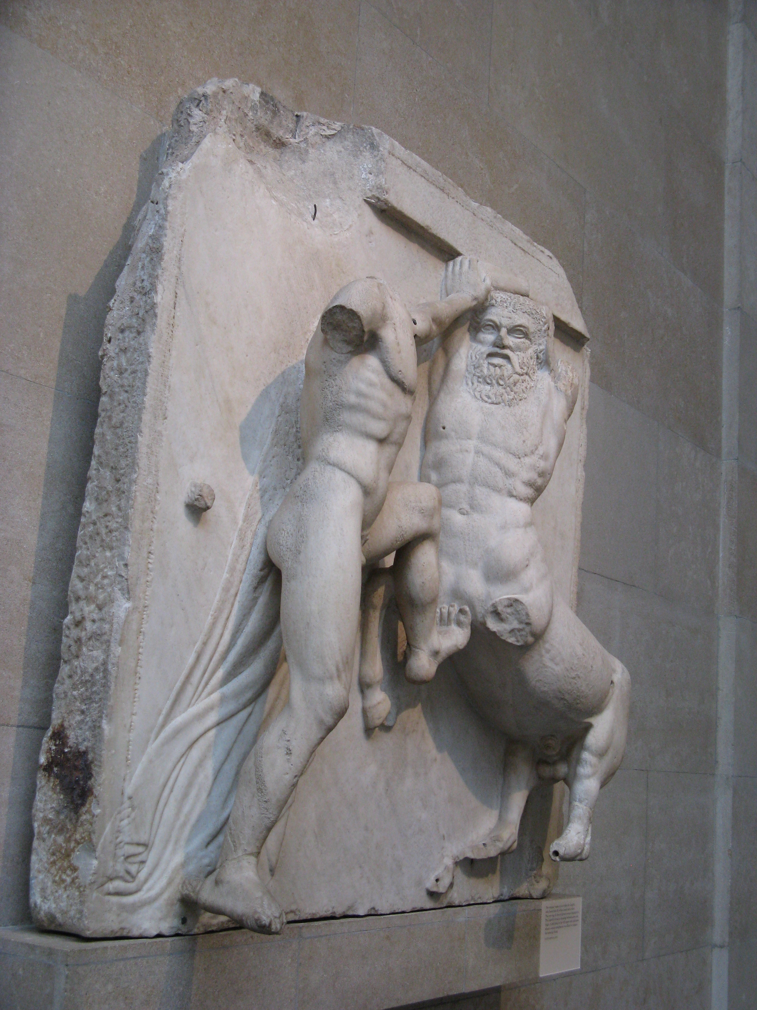 A centaur and Lapith in combat. South metope XXVI, Parthenon at British Museum.